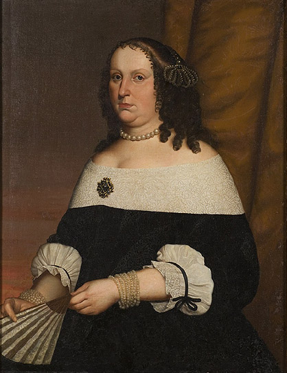 Christina Magdalene (1616-1662), sister of King Carl X Gustav of Sweden